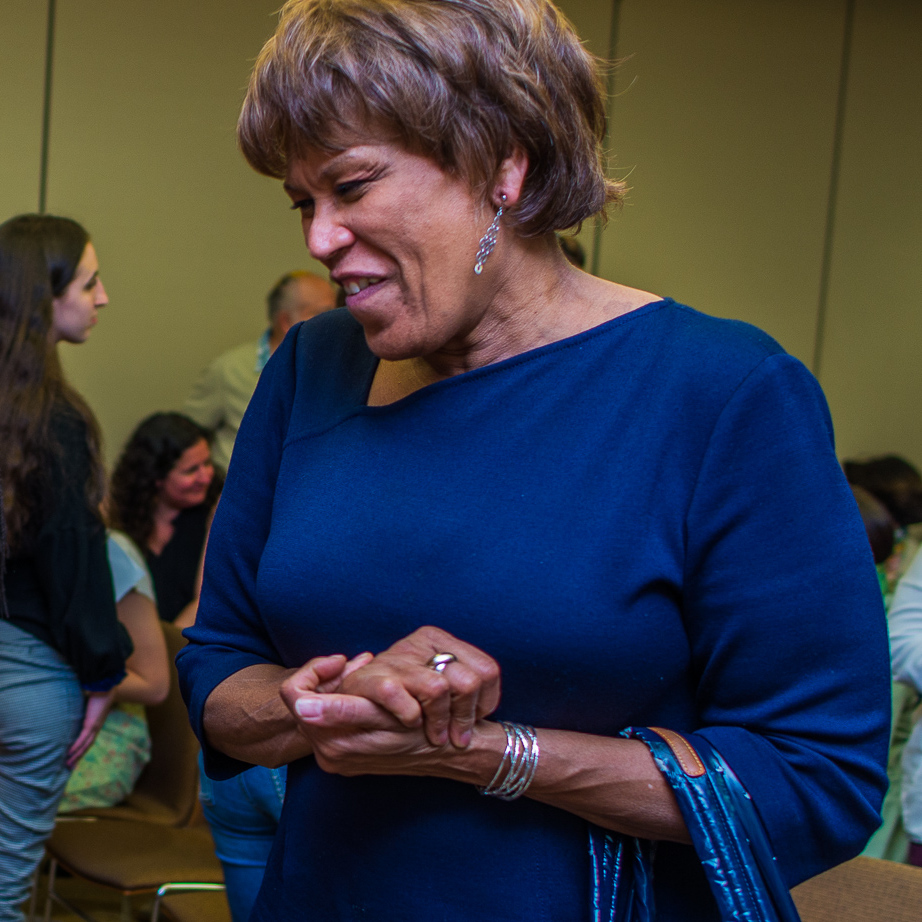 JWA Red Tent Event, May 9, 2018. Photo by Steve Osemwenkhae.